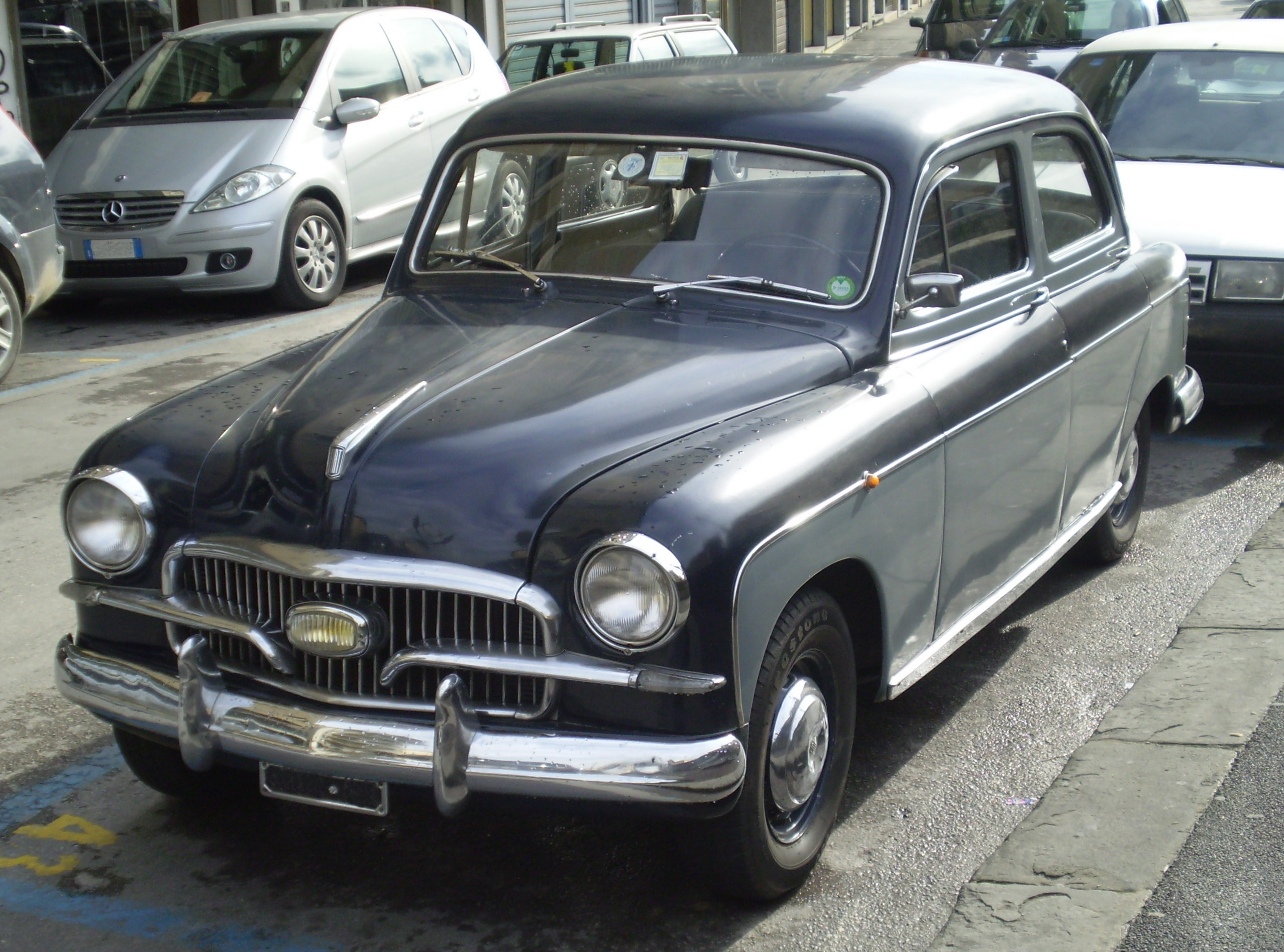 Fiat_1400B (1900B)